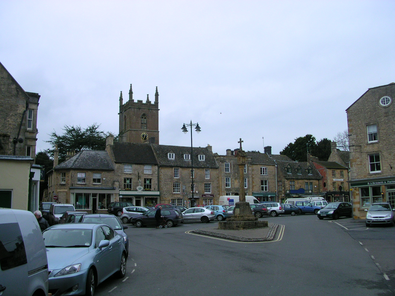 Stow-on-the-Wold, Gloucestershire, England.